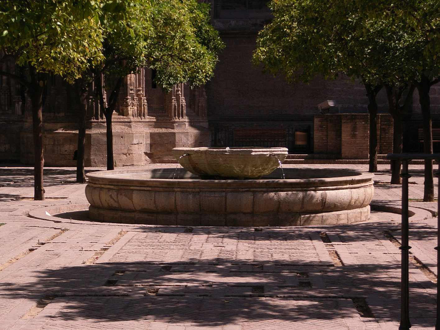 Patio de los Naranjos; Orangenhof; Kathedrale Sevilla